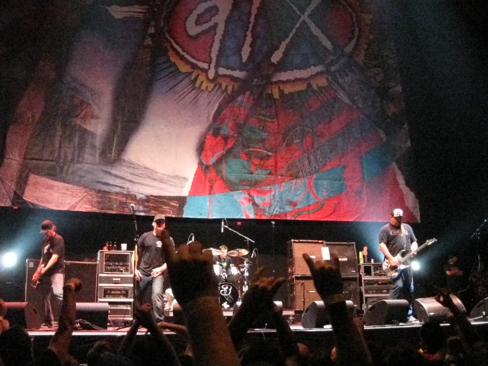 Pennywise performing at the Valley View Casino Center in San Diego, California on December 11, 2011 as part of radio station 91X's "Wrex the Halls" concert. Left to right: bassist Randy Bradbury, singer Zoli Téglás, drummer Byron McMackin, and guitarist Fletcher Dragge.